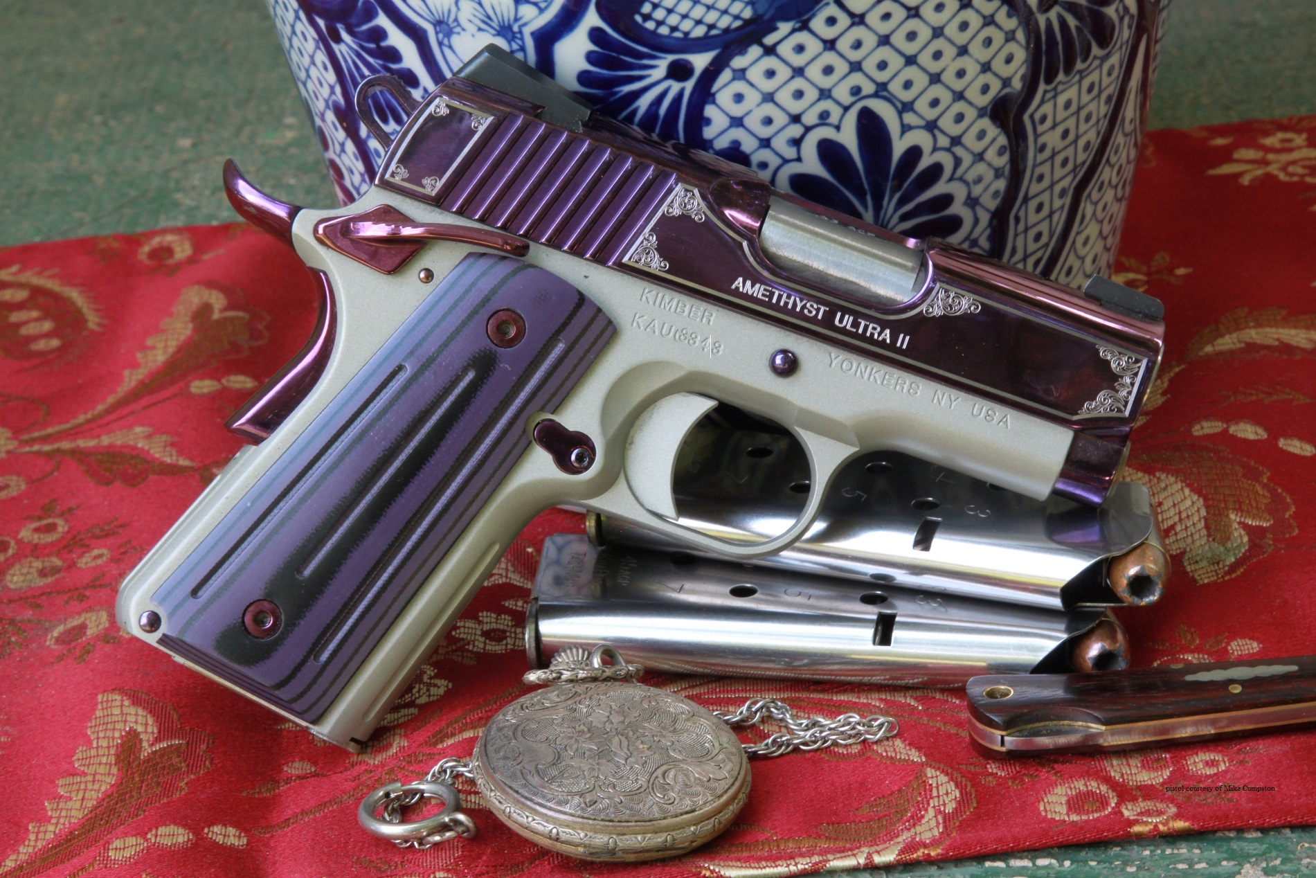 Kimber Amethyst Ultra II 1911 with 3-inch bull barrel PVD finish with engraving